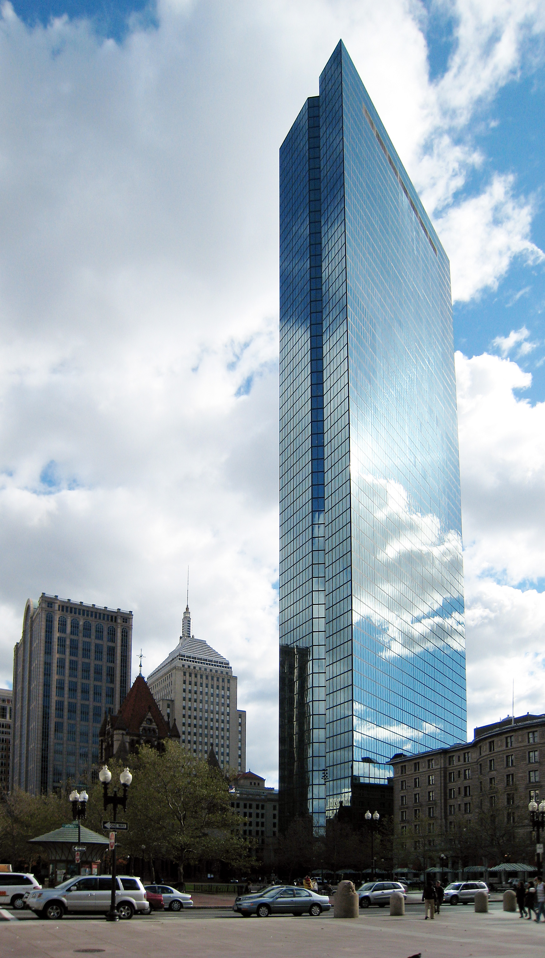 The John Hancock Tower is the tallest building in Boston, USA. Its completely mirrored facade was an architectural novelty. This picture, taken late October 2006 in quite cold temperatures, the mirror effect is clearly visible.